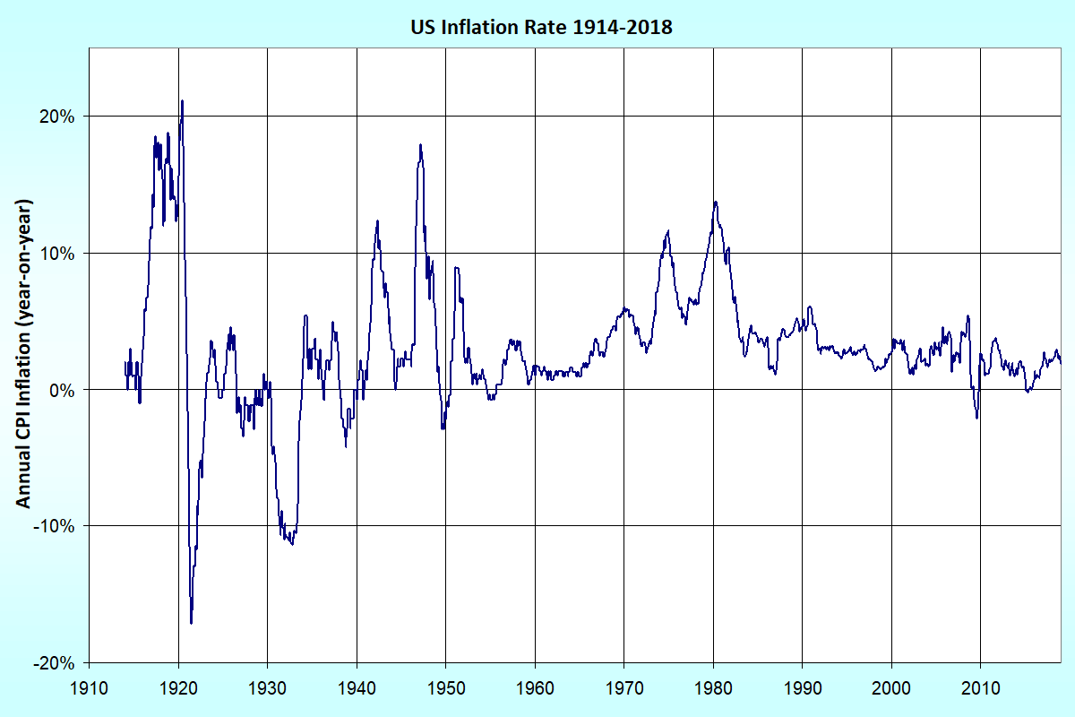 US CPI inflation (year-on-year) from 1914 to 2018. US CPI monthly data series obtained from the Federal Reserve Economic Data (FRED) database provided by Economic Research at the St. Louis Fed.[1]